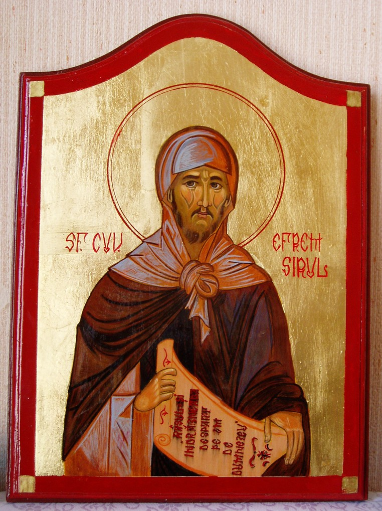 Romanian icon of St Ephrem the Syrian, painted by an unnamed Romanian nun "near Oradea" in 2005.